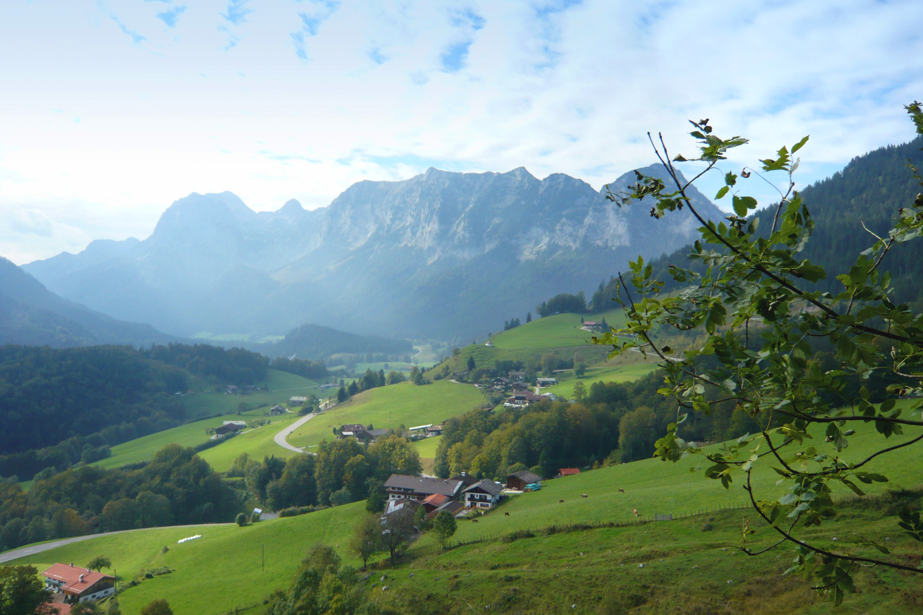 View to Reiteralpe from Soleleitungsweg near Berchtesgaden, Germany